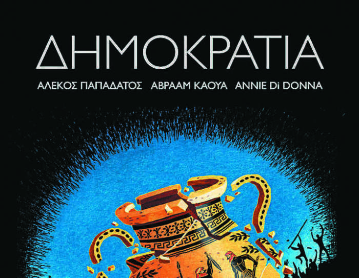 Εξώφυλλο του βιβλίου Δημοκρατία